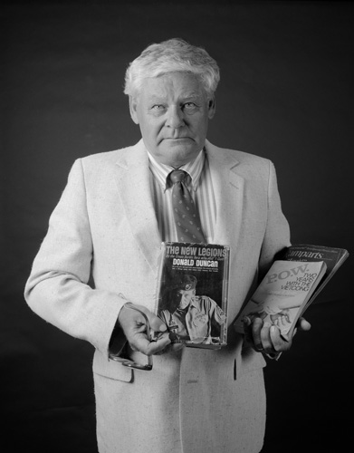 Green Beret Master Sergeant Donald Duncan GI resister during the Vietnam War, said "The whole thing was a lie."